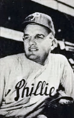 A Bowman Gum baseball card of Jim Konstanty